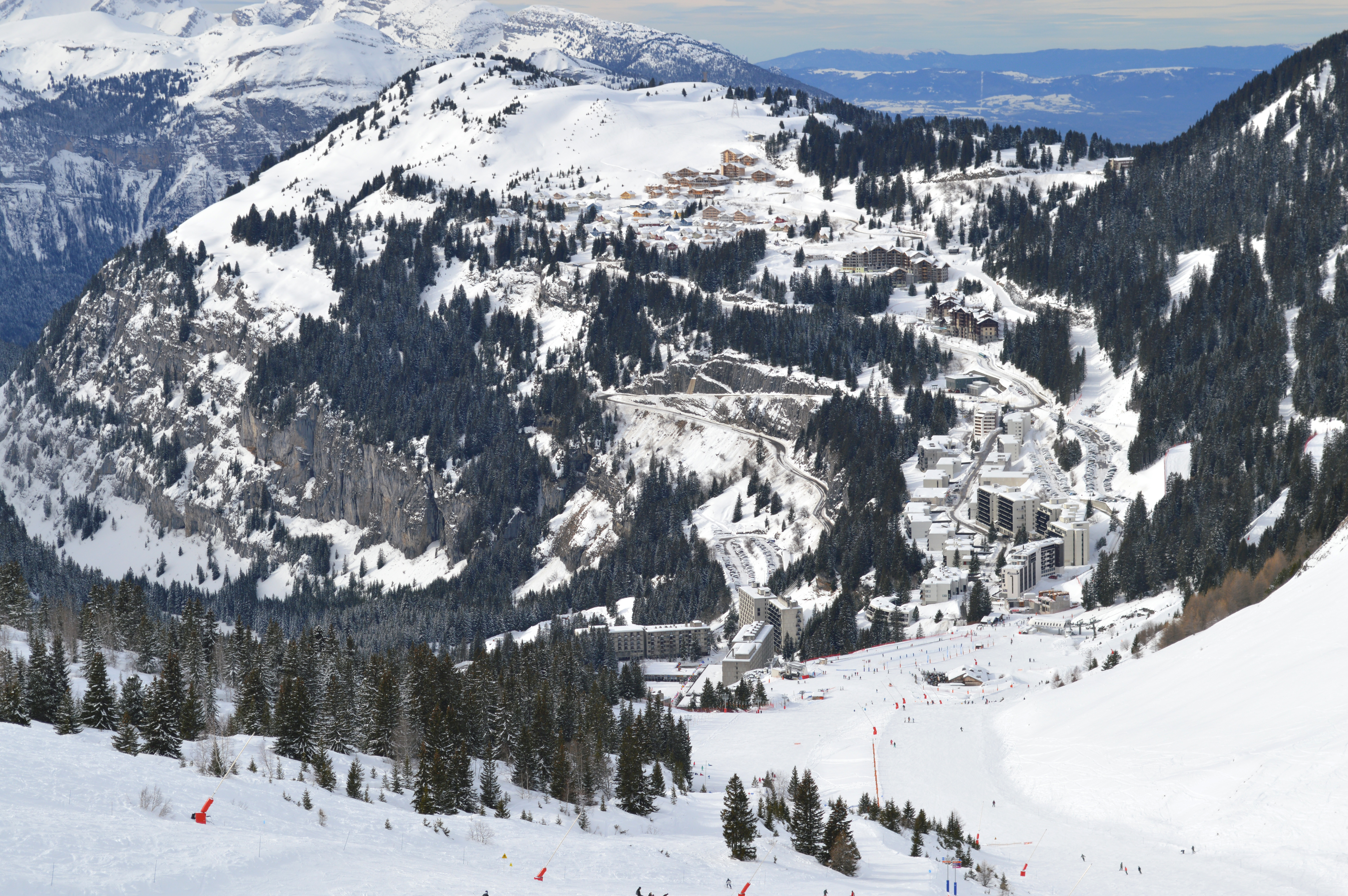 Overview of the ski resort of Flaine, France, and its different villages.